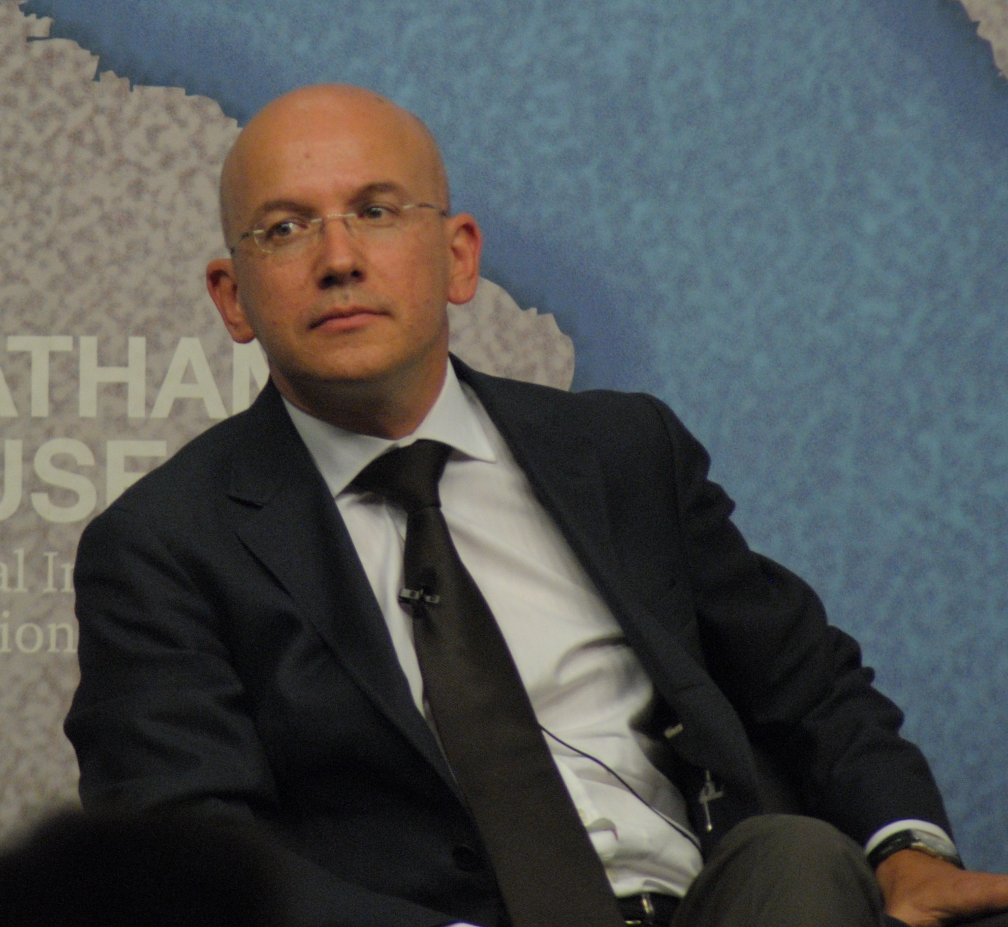 Yves Daccord, Director-General, International Committee of the Red Cross at the Chatham House event "Is There Still a Place for Impartial Humanitarianism?", 4 September 2014.